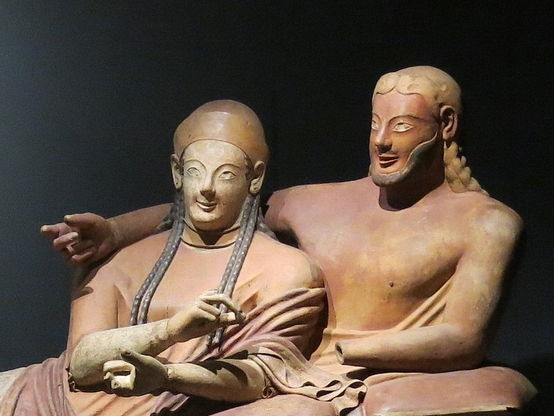 The sarcophage des Époux in the exhibition Un rêve d'Italie from the Campana collection. Louvre museum (Paris, France).